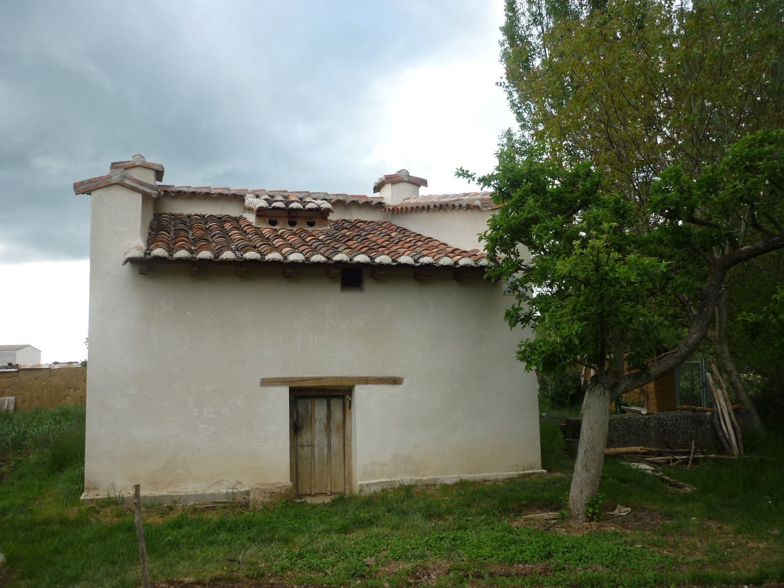 Palomar en Quintanilla de Onsoña